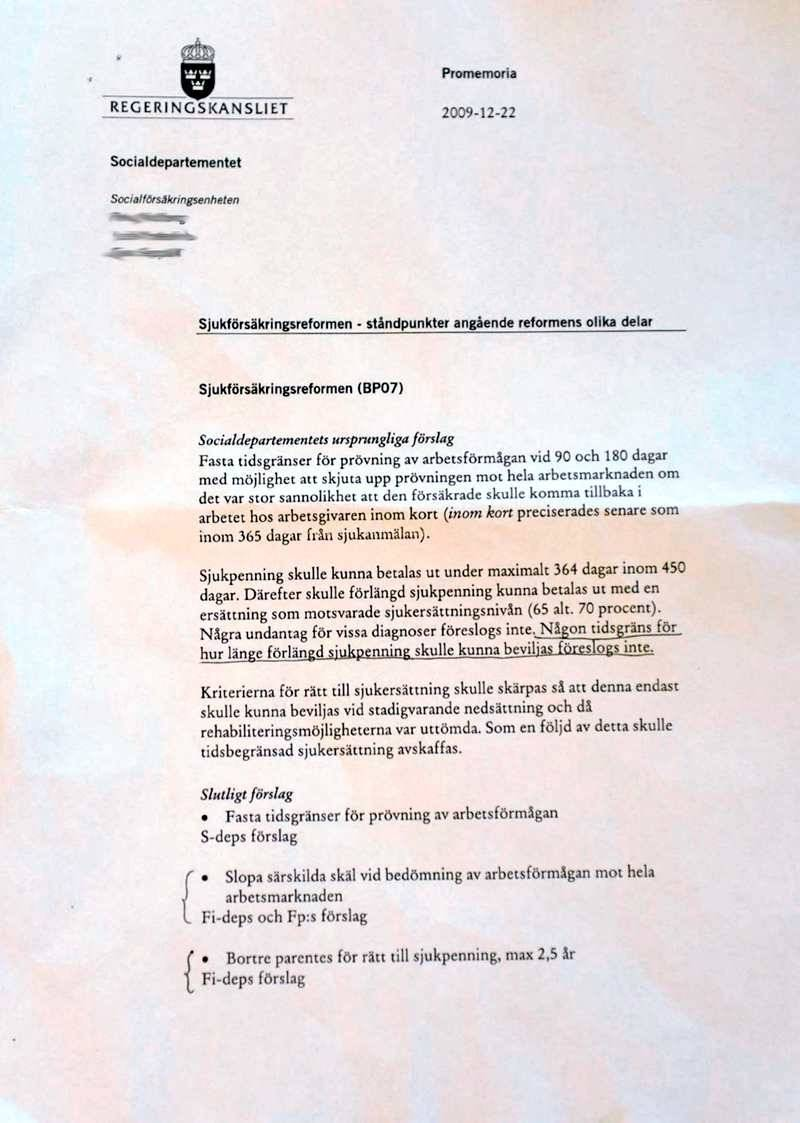 A memorandum from the Swedish Ministry of Health and Social Affairs